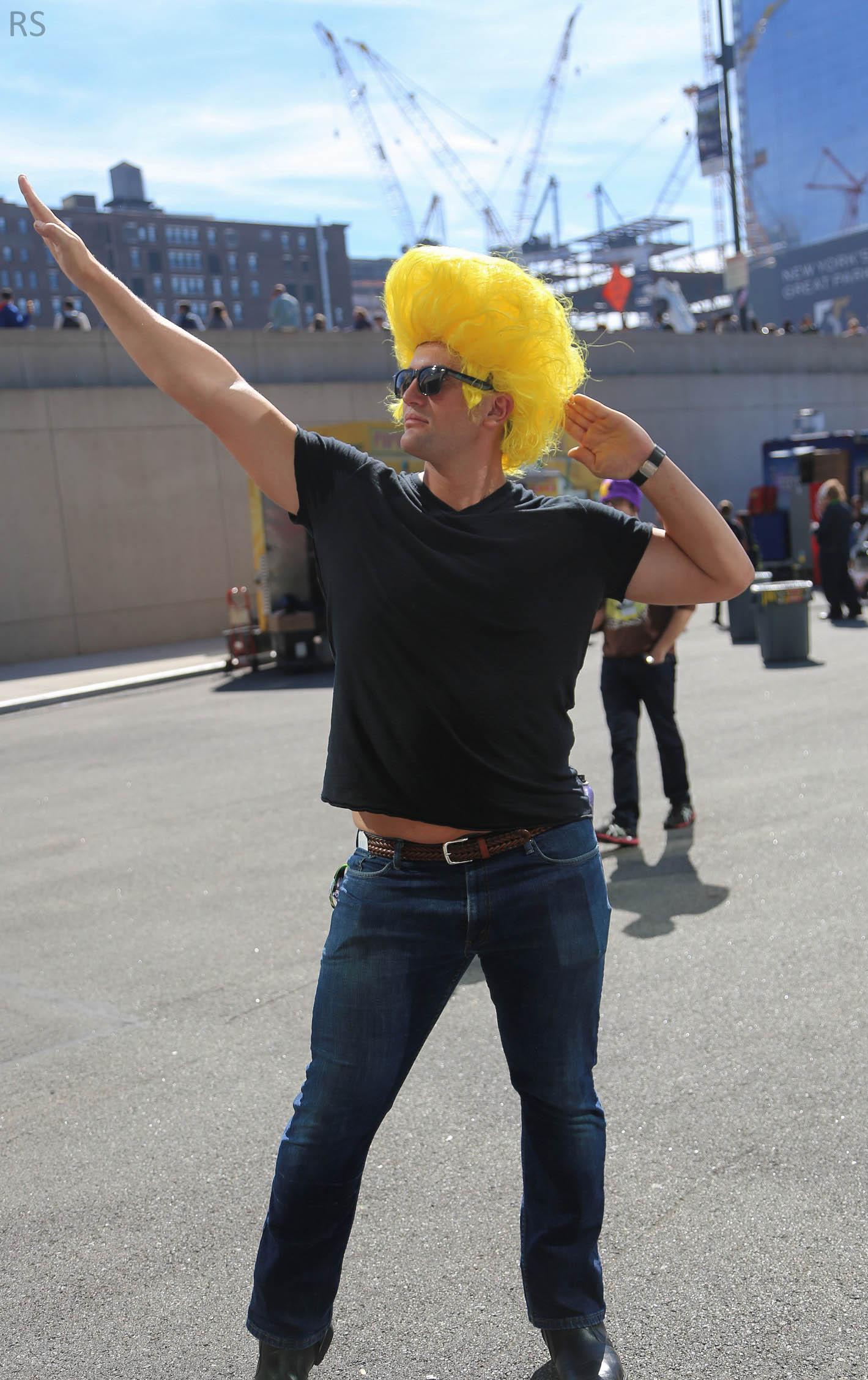 New York Comic Con 2015 - Johnny Bravo Cosplay at the 2015 New York Comic Con (NYCC 2015).